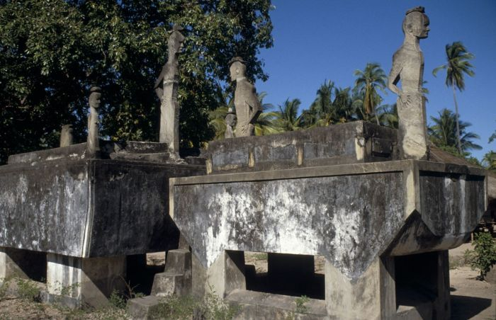 The grave of a raja of the Lewa Kambera suku, Kawangu